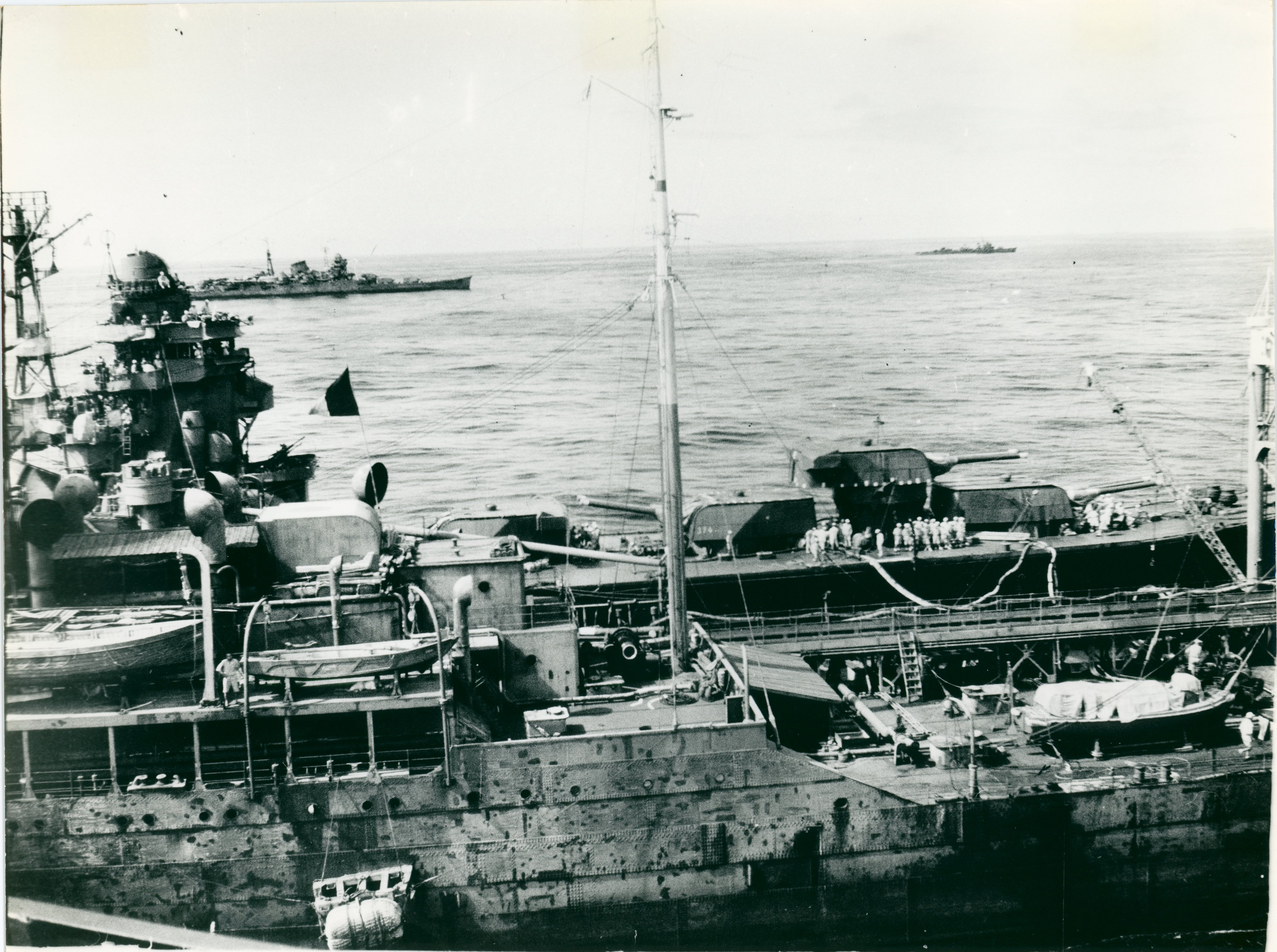 HIJMS Tone and Aux. oiler Kokuyō Maru at Philippine Sea.